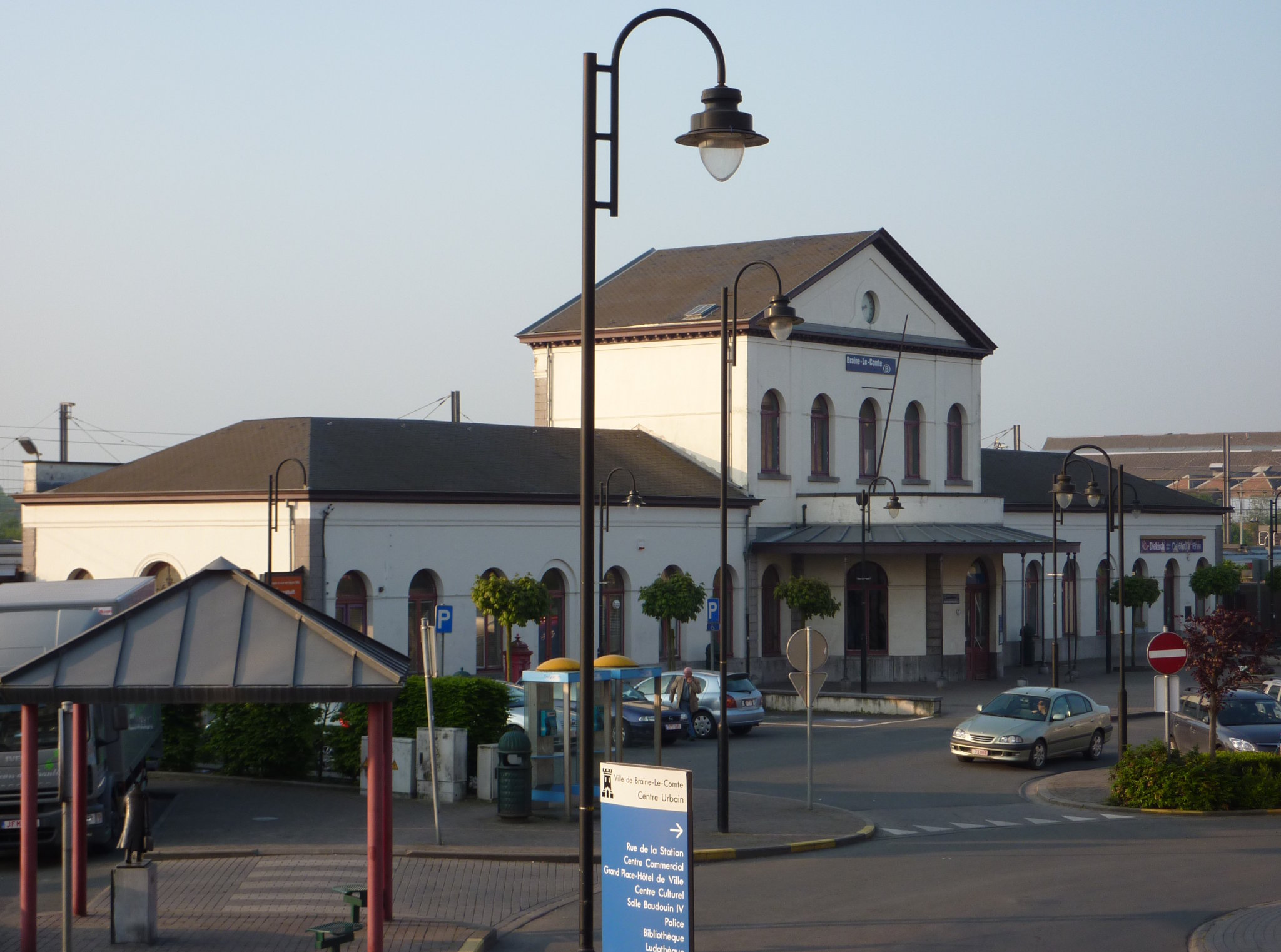 Braine-le-Comte, eldest belgian railroad station